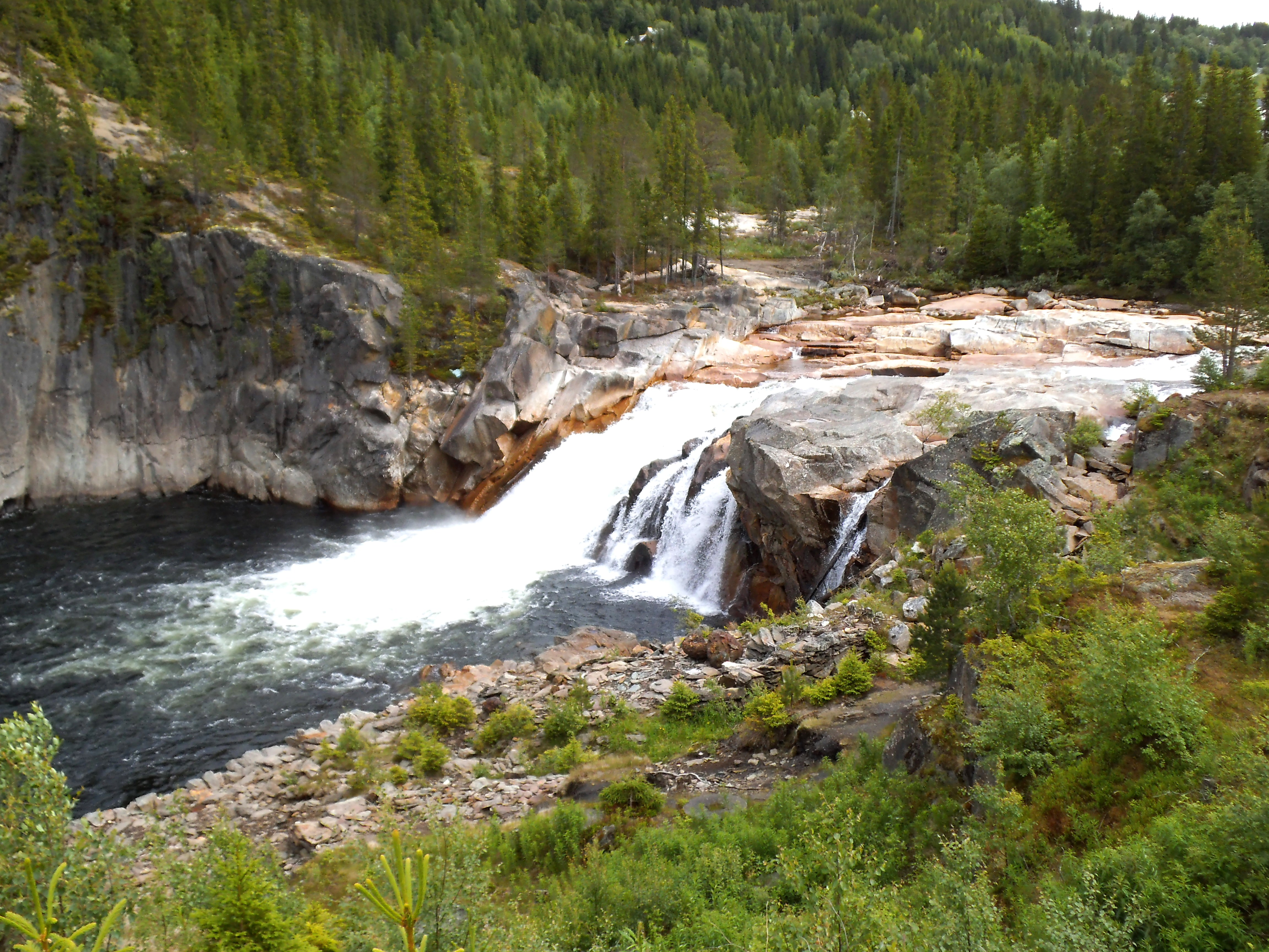 Eafossen is a waterfall in the river Gaula, located in Holtålen, Norway. It was earlier called Hyttfossen.